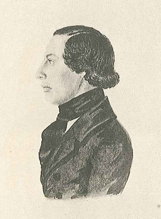 Fredrik Lundberg (1825-1882), Swedish veterinary physician. Portrait from Lundberg's time as a student at Lund University (1846).